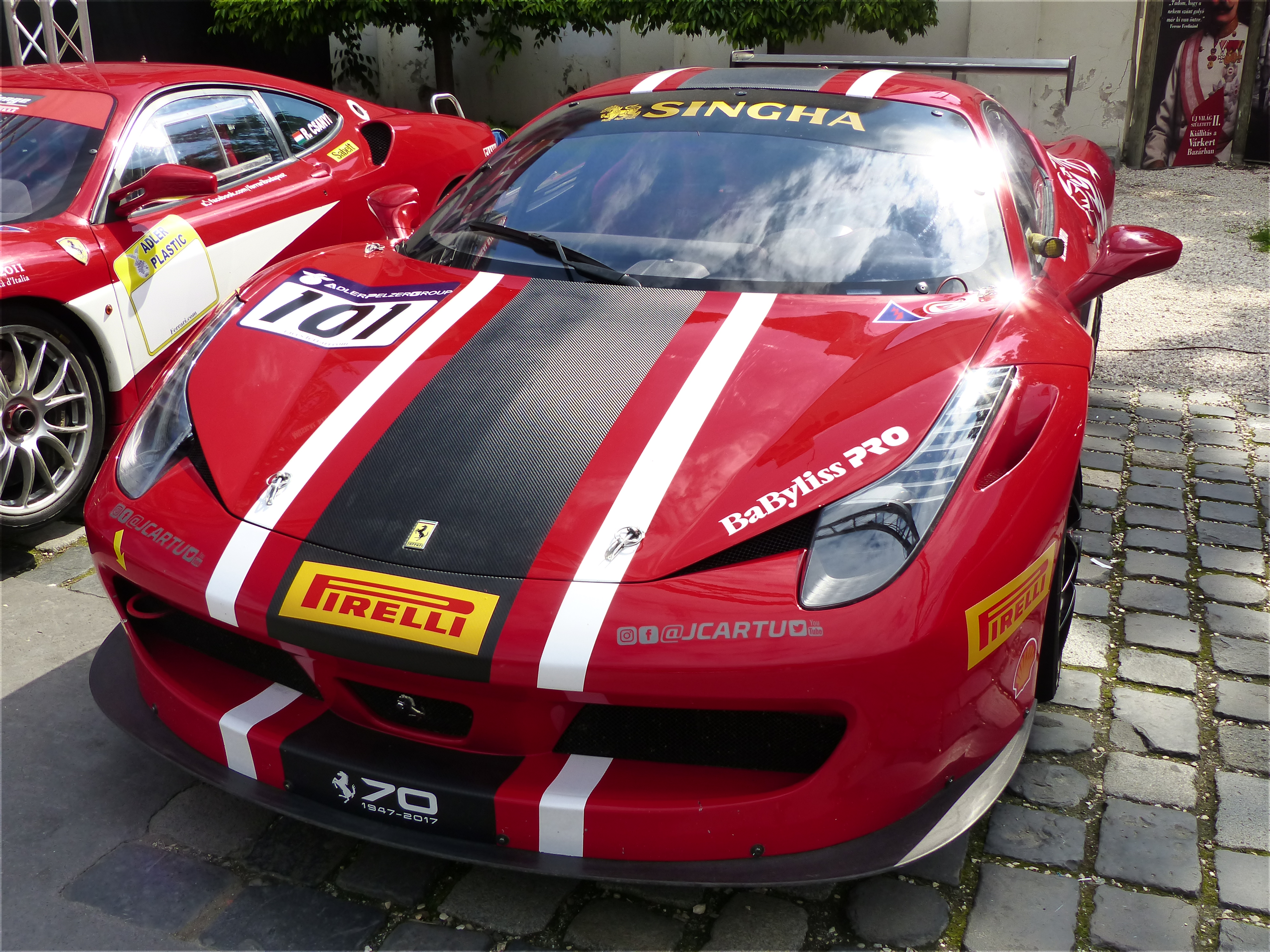 Nagy Futam. Budapest, Hungary, Central Europe. Taken on the 30th of April, 2017. Before the day of Nagy Futam (1st of May, 2017) racing cars on display at the Városház park, Budapest.